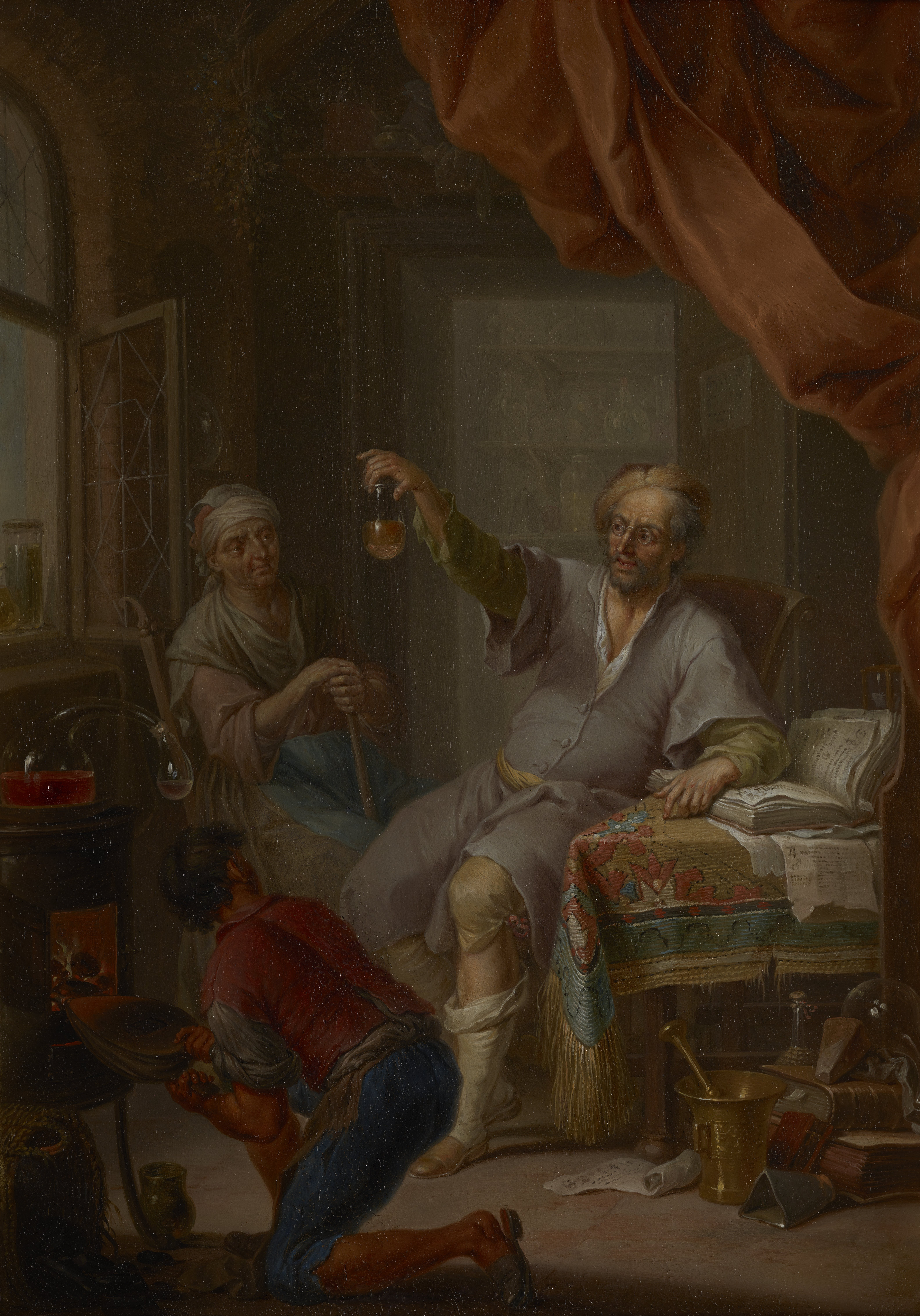 Three figures are shown in a well-lit room in front of an open window. In the background is a cabinet full of glassware. Centrally, a seated alchemist in a physician's red cap with fur trim holds a flask in his right hand and leans with his left on a table and an open astrological book. The alchemist looks poorly dressed and unkempt, with balding hair and a scruffy beard. The Turkish carpet on the table is frayed. The physician holds up a urinal to inspect its contents, including the sediment that has collected at the bottom, against the light. At left in the middle ground, an older seated woman holds a walking stick, facing the alchemist. In the left foreground a man kneels, his head turned right to watch the diagnosis. He is using bellows to blow up the fire of an open free standing furnace. On top of the furnace is a distillation apparatus. A red fluid is being distilled in the retort, and a yellow distillate has collected in the receiver. A wicker basket full of charcoal is within reach of the assistant. In the right foreground on the floor are books, a mortar and pestle, apparatus, and a scroll with planetary and zodiacal symbols. At the time of painting, astrological medicine was no longer practiced by reputable physicians, so the inclusion of the astrological details suggests he is somewhat of a quack.